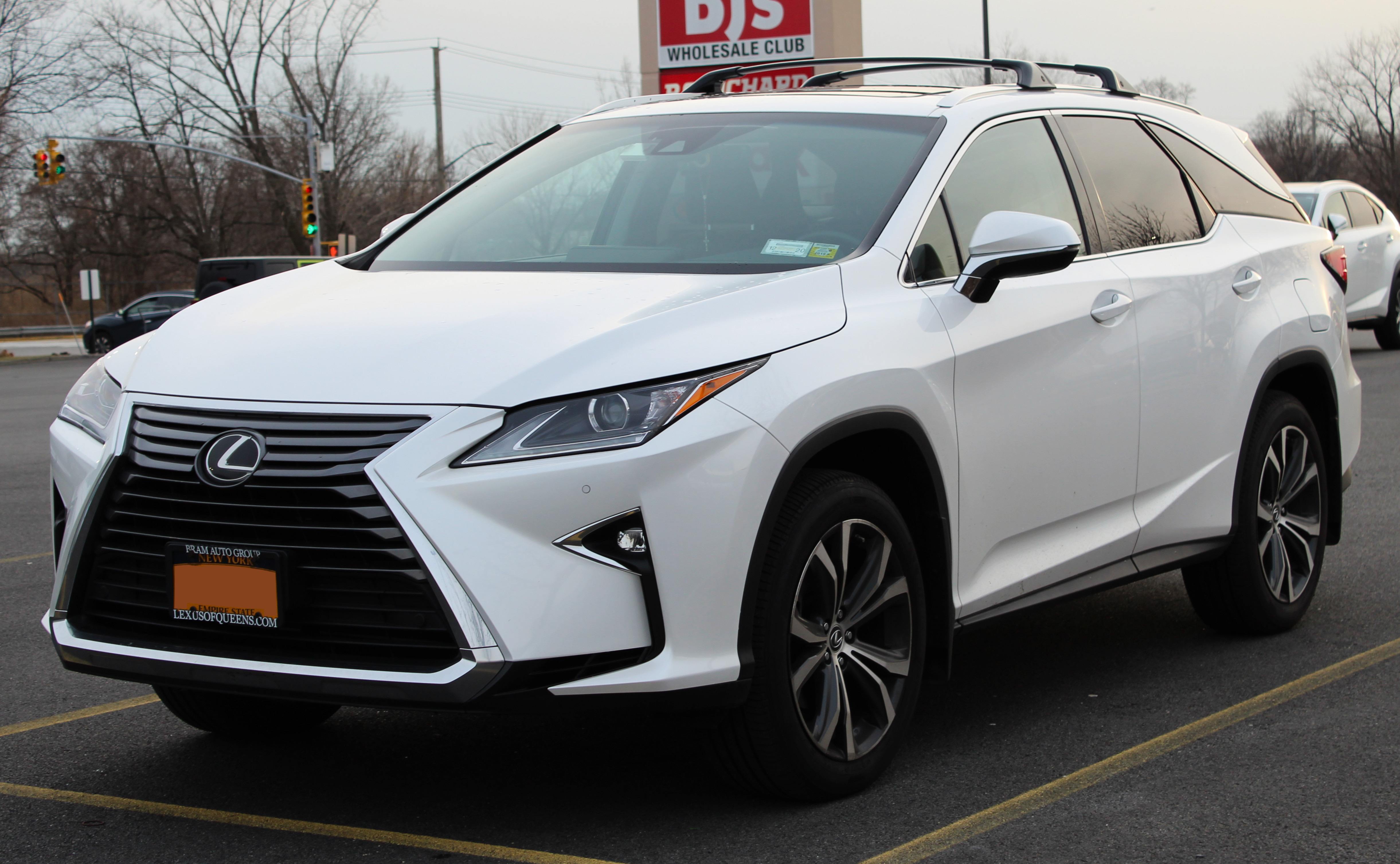 A 2018 Lexus RX 350L photographed in College Point, Queens, New York, USA